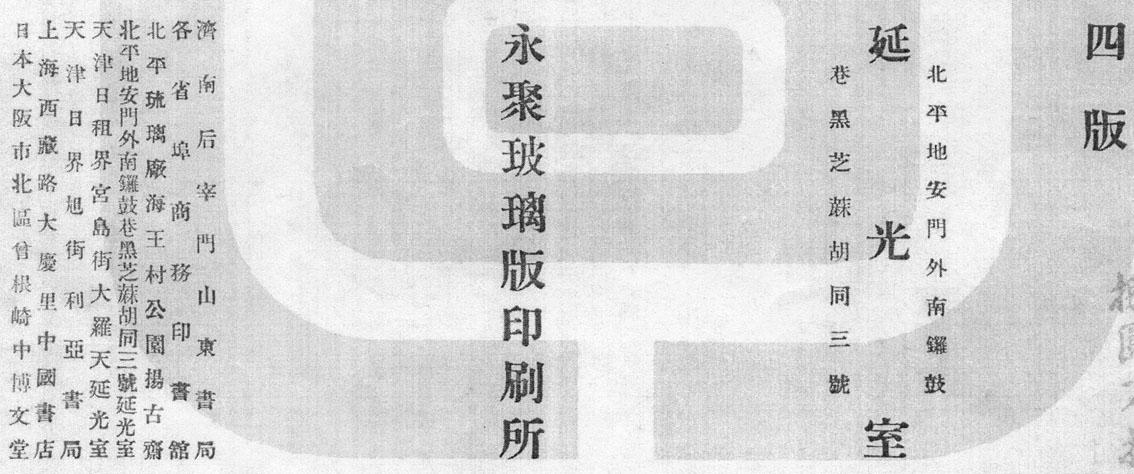 Copyright page from Sun Guo Ting Shu Pu from Yan Guang Shi